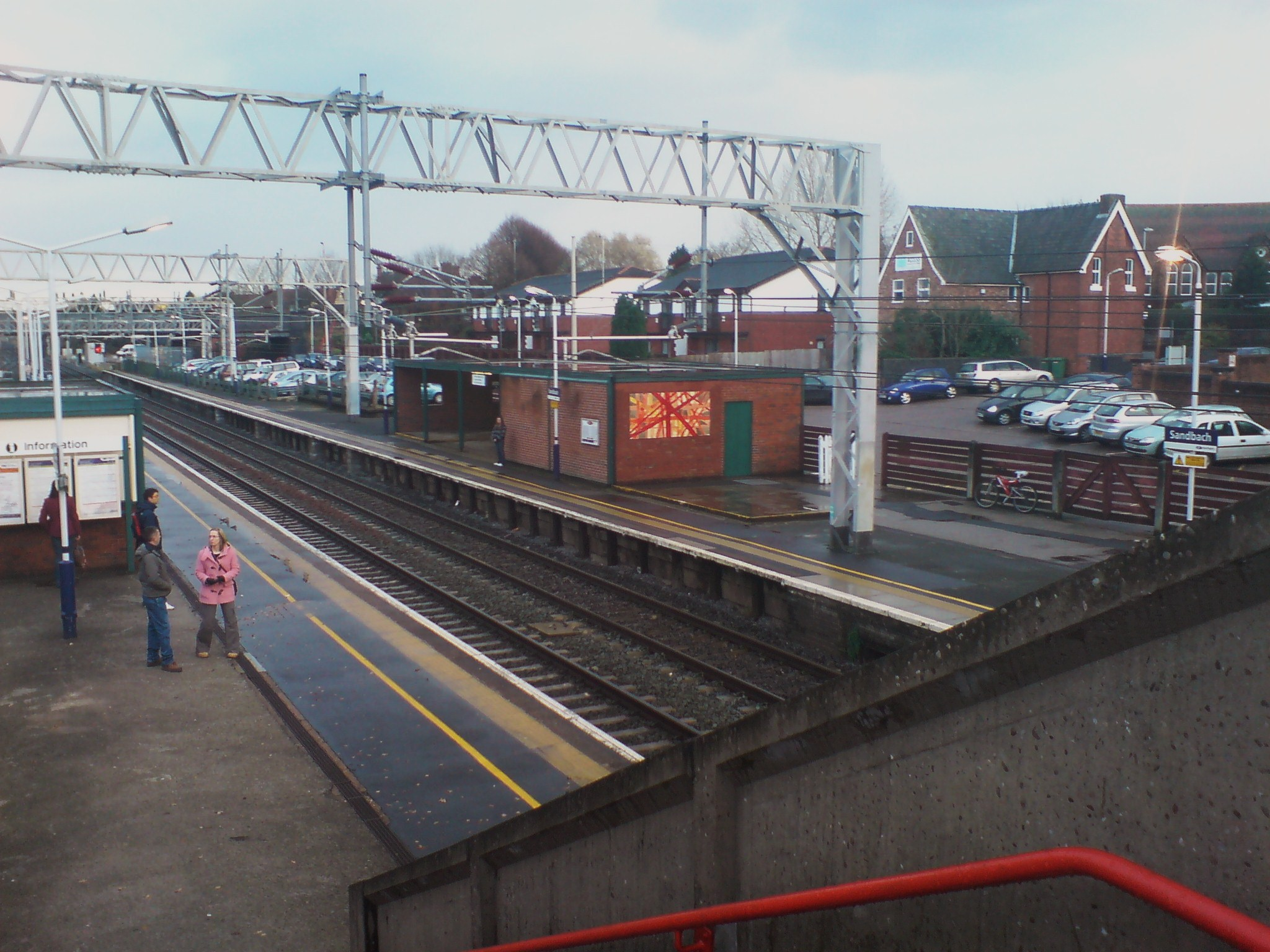 Sandbach railway station, taken from the bridge overpass.